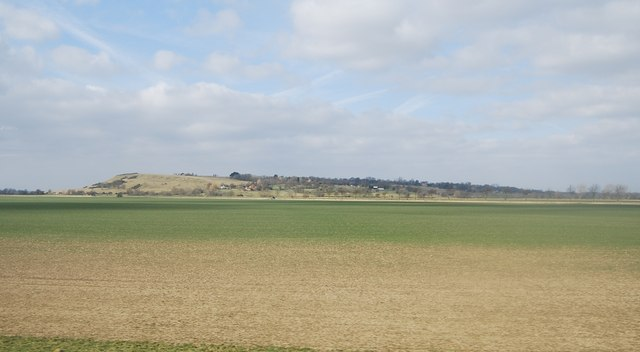 Looking towards the Isle of Oxney Over a 1000 years ago this was an Island, but sea & river deposition have filled in the area around it.